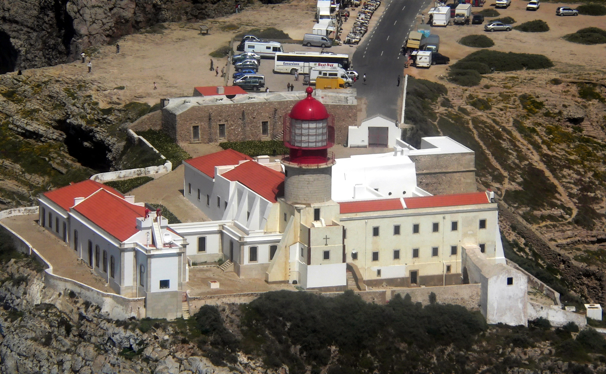 Lighthouse Sagres, Algarve Portugal